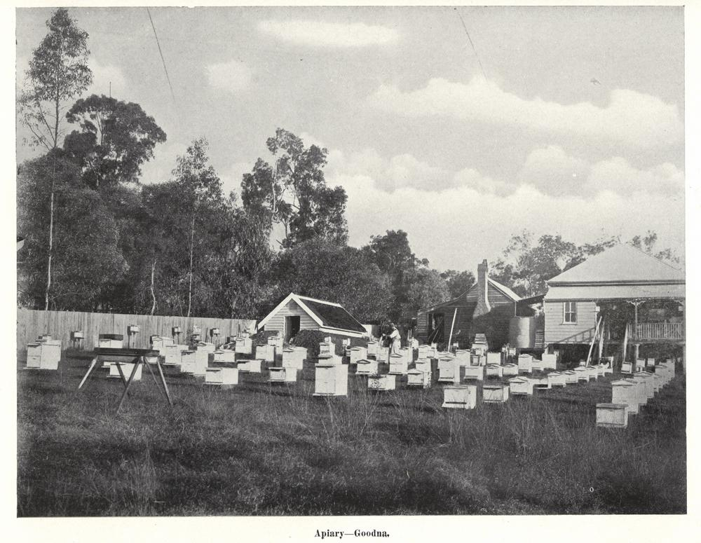 "Apiary at Goodna in Queensland. ca. 1913". Uploaded by "Goodstone". Publisher John Oxley Library, State Library of Queensland Image number APE-045-0001-0031 Format photographic print : b&w Managed by Item is held by John Oxley Library, State Library of Queensland. Collection or series 6251 Collection or series APE-45. Is part of an album of State Government photographs. Date or place Queensland Date or place ca. 1913 Rights This image is free of copyright restrictions. Permission to use this image for any purpose other than private study and research may attract a fee for reproduction rights. For further information please view